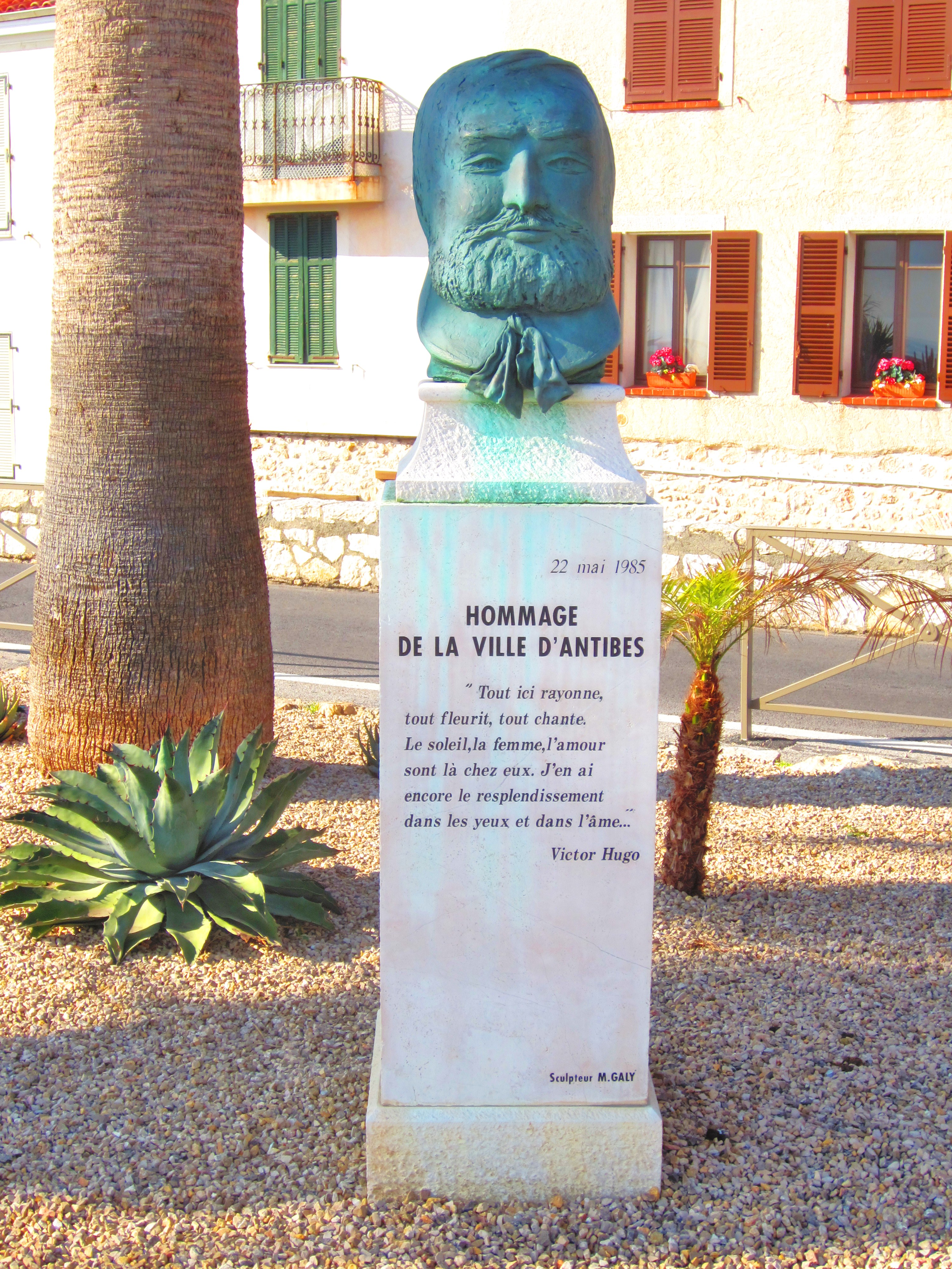 Statue hugo Antibes